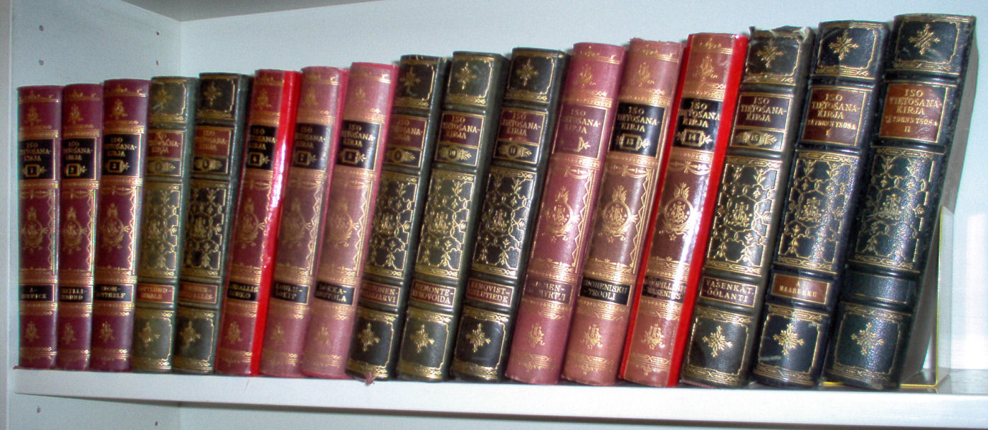 A Finnish encyclopedia series Iso Tietosanakirja from the 1930s. Published by Otava.